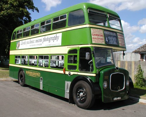 Dennis Loline I